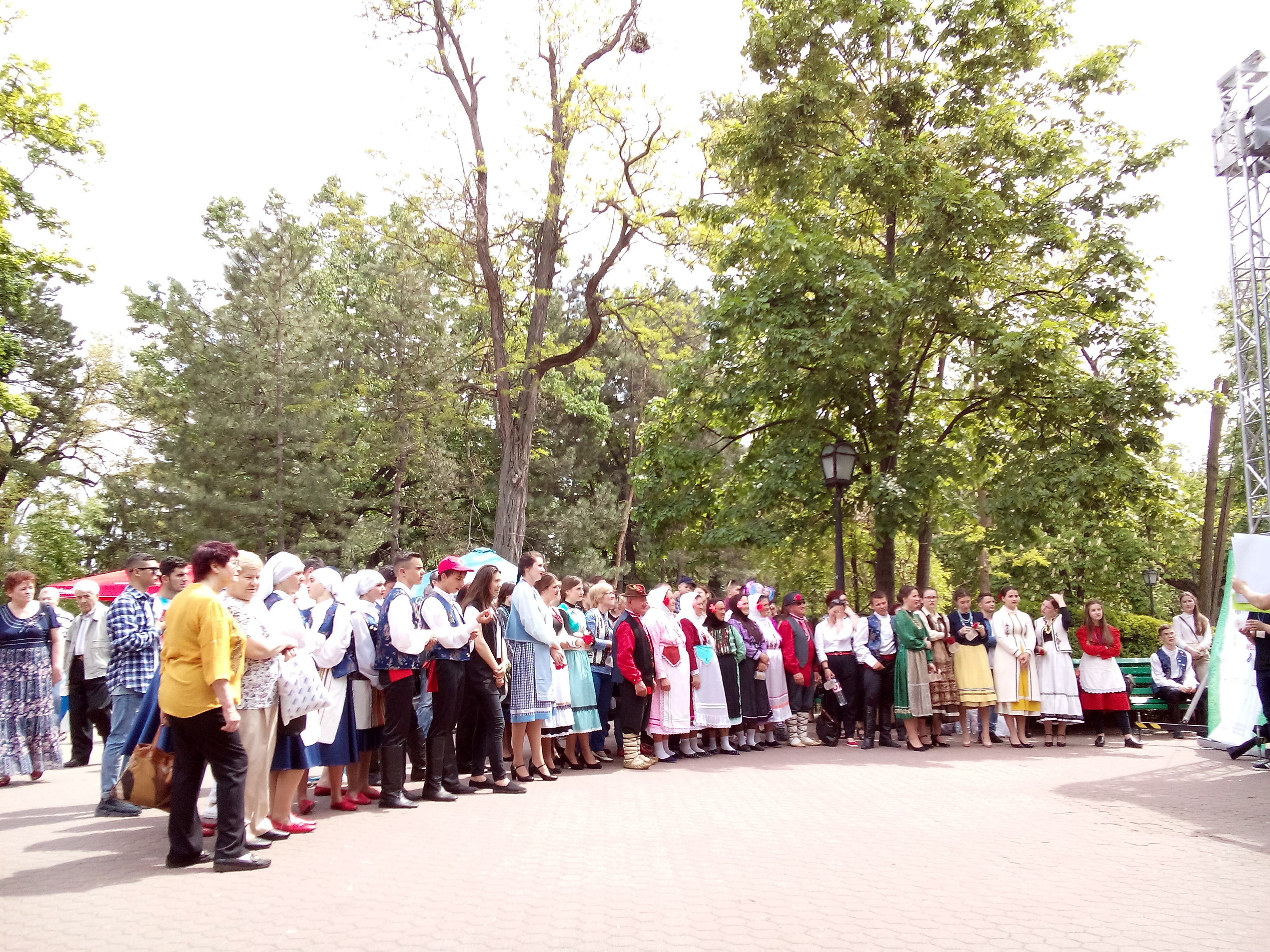 Gagauzi people of Moldova, celebrating Hederlez in the Ștefan cel Mare Central Park of Chișinău: group photo of organizers and participants